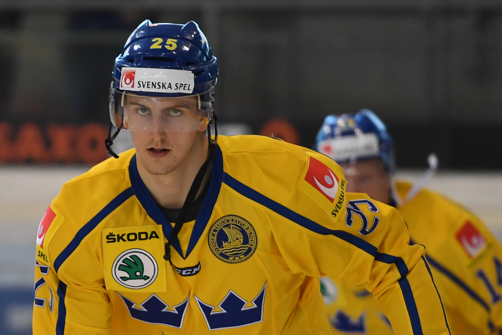 6/4/2017, Vienna, Austria, Sport, Ice Hockey, Friendly match Austria vs Sweden.